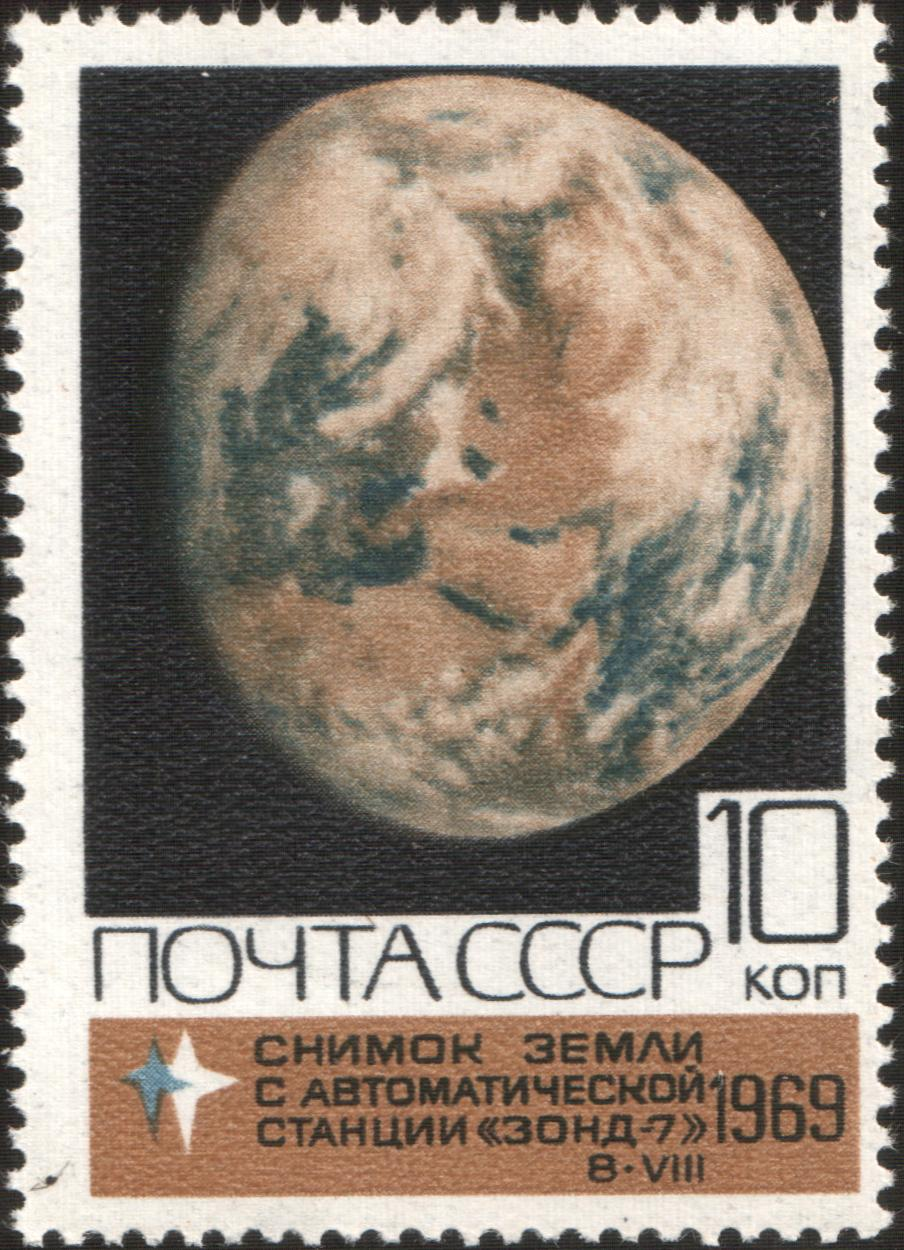 USSR stampː Colour Photograph of Earth. Seriesː Space Exploration